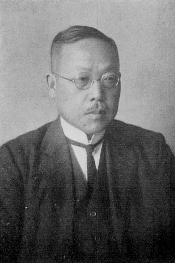 Kumaji Yoshida.